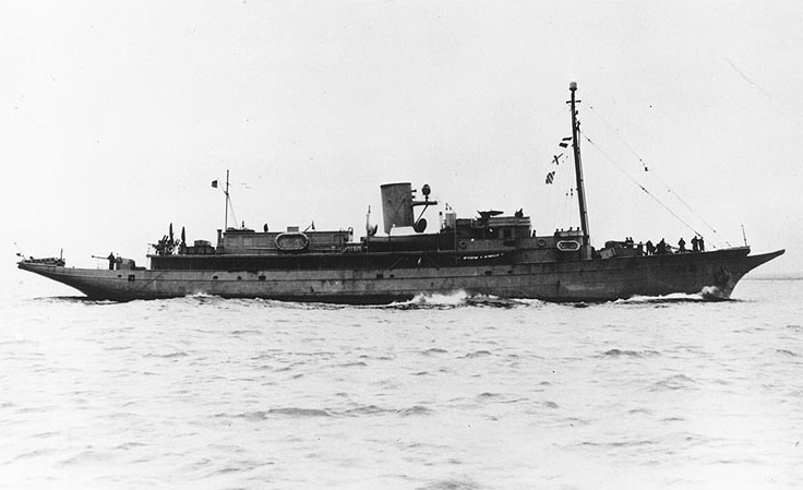 U.S. Navy armed yacht USS Zircon (PY-16) underway during World War II.